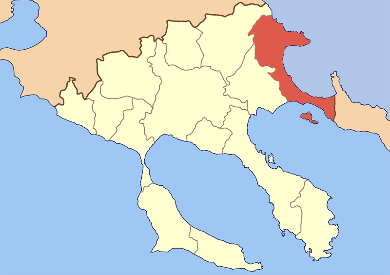 Map of municipality (Dimos) of Stagiron-Akanthou in Chalkidiki.